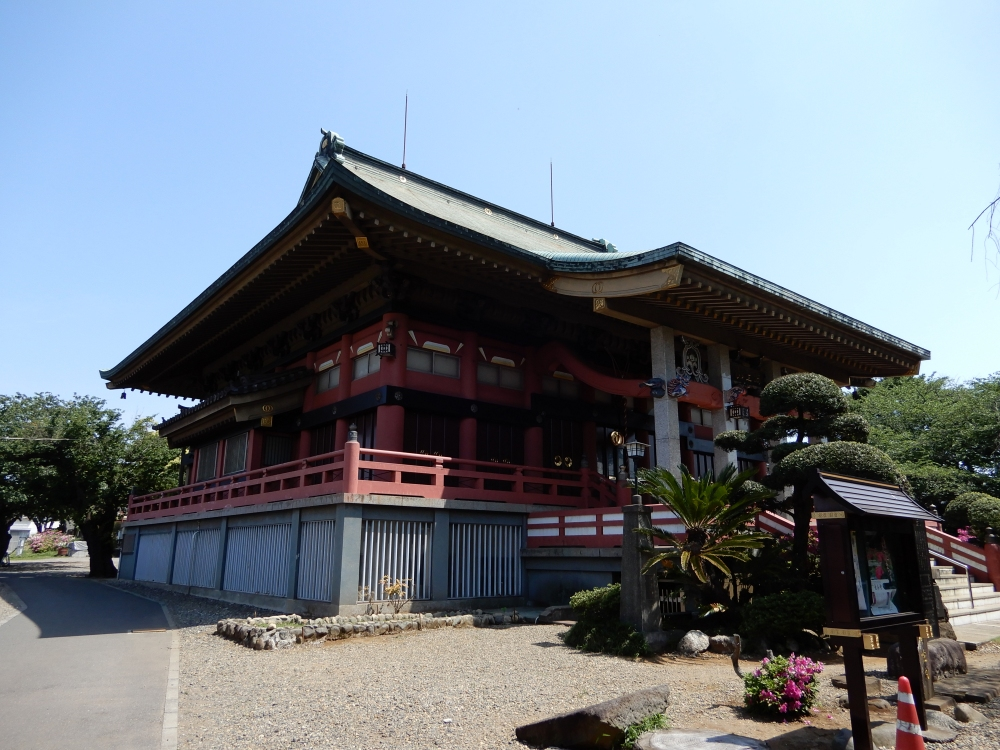 Main hall of Senyō-ji temple in Chiba, Chiba Prefecture